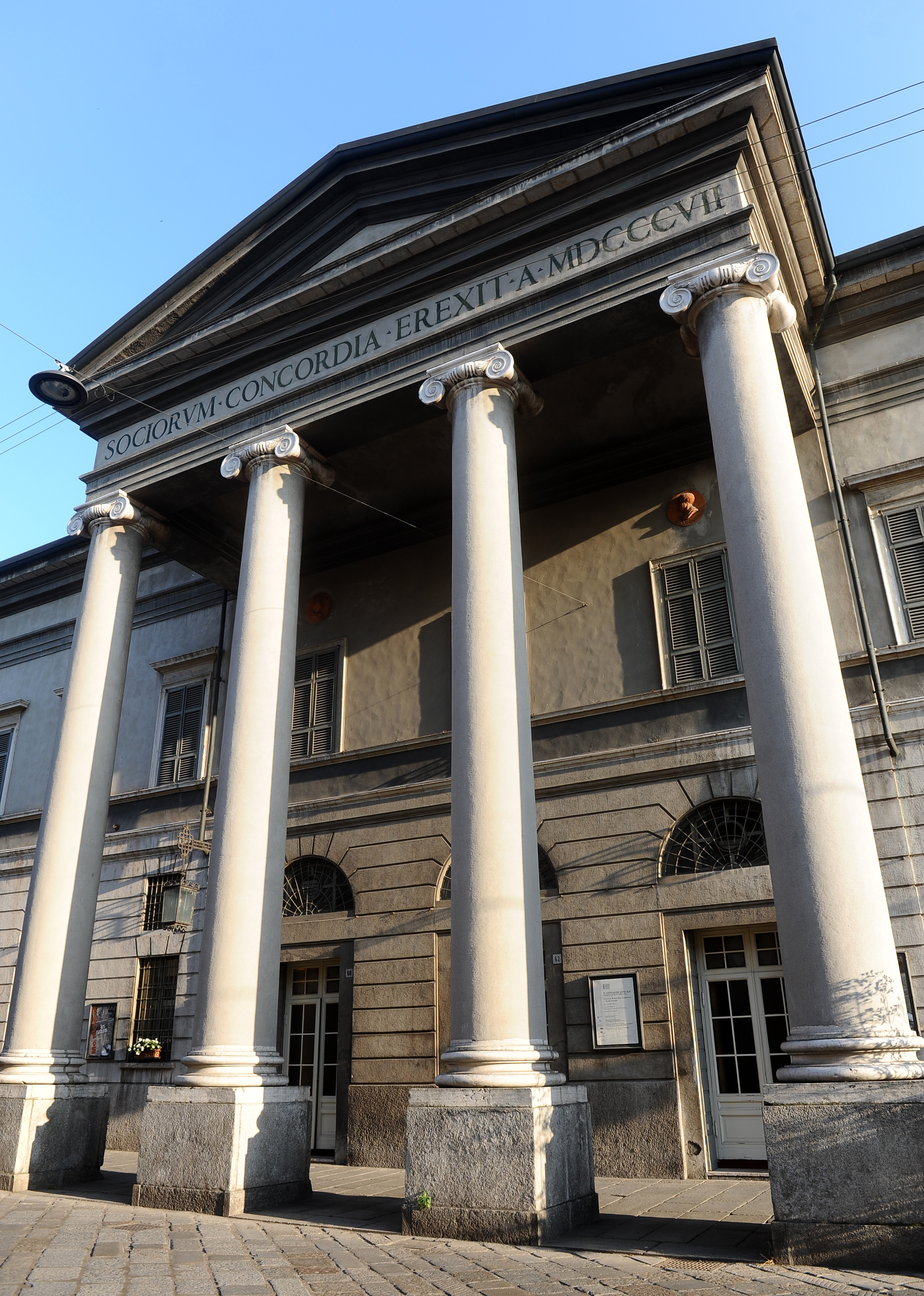 Teatro Comunale Ponchielli in Cremona, Italy.